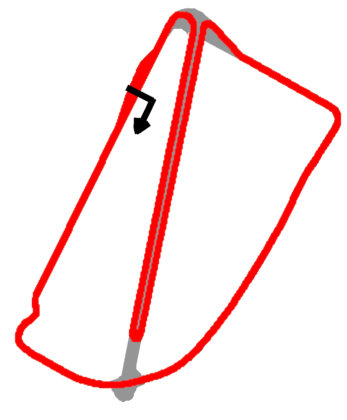 Modena autodrome racing circuit map (with "Stanguellini Chicane")